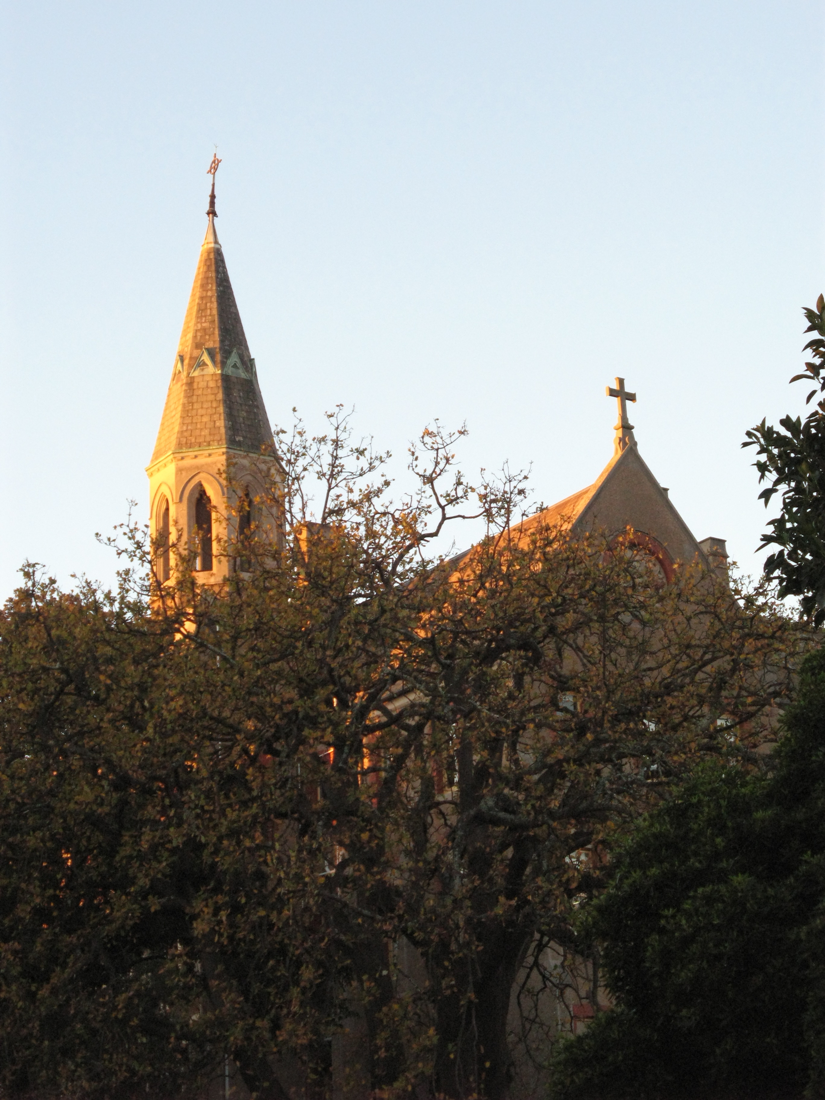 A tower at the Abbotsford Convent, Abbotsford, Melbourne, Australia. Photo taken by Nick carson in July 2009.